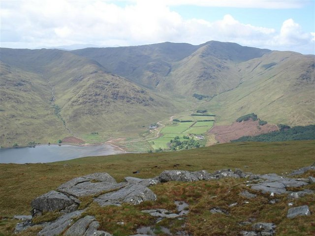 SW from Creag a'Ghlinne This view from the SE ridge of Beinn na Cille shows Loch a'Choire below, and Beinn Mheadhoin in the background.